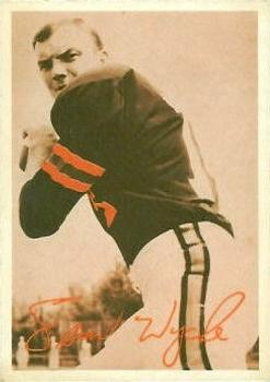 A promotional image of Cincinnati Bengals player Sam Wyche.